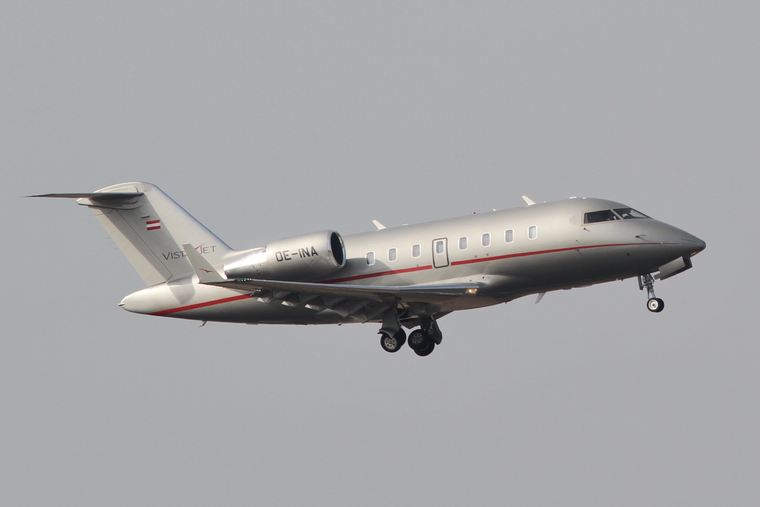 Narita International Airport, Bombardier Challenger 605, c/n:5782, VistaJet